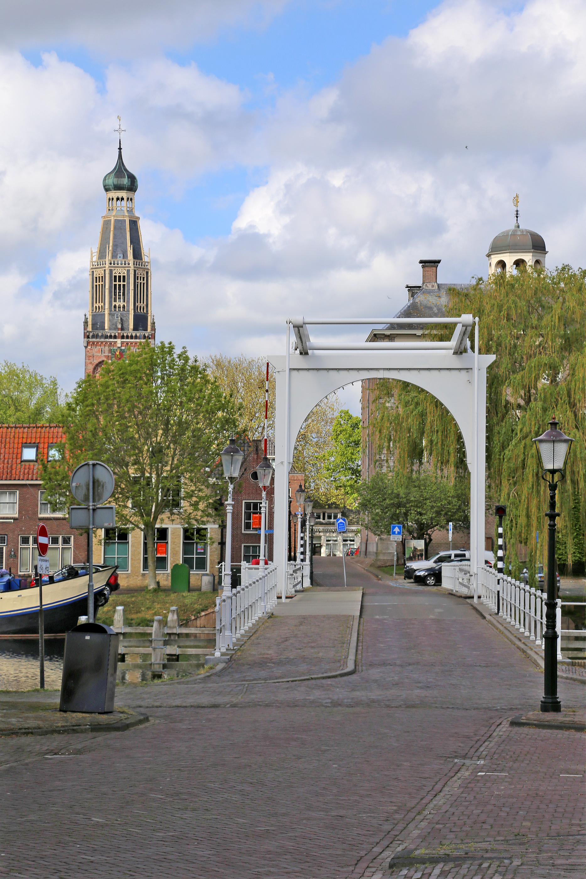 Enkhuizen, Netherlands: View of the bascule bridge at Oosterhaven. In the background the tower of the Zuiderkerk and the Apostolitic Kerk.